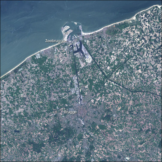 Landsat image of Brugge and the Port of Zeebrugge, Belgium.